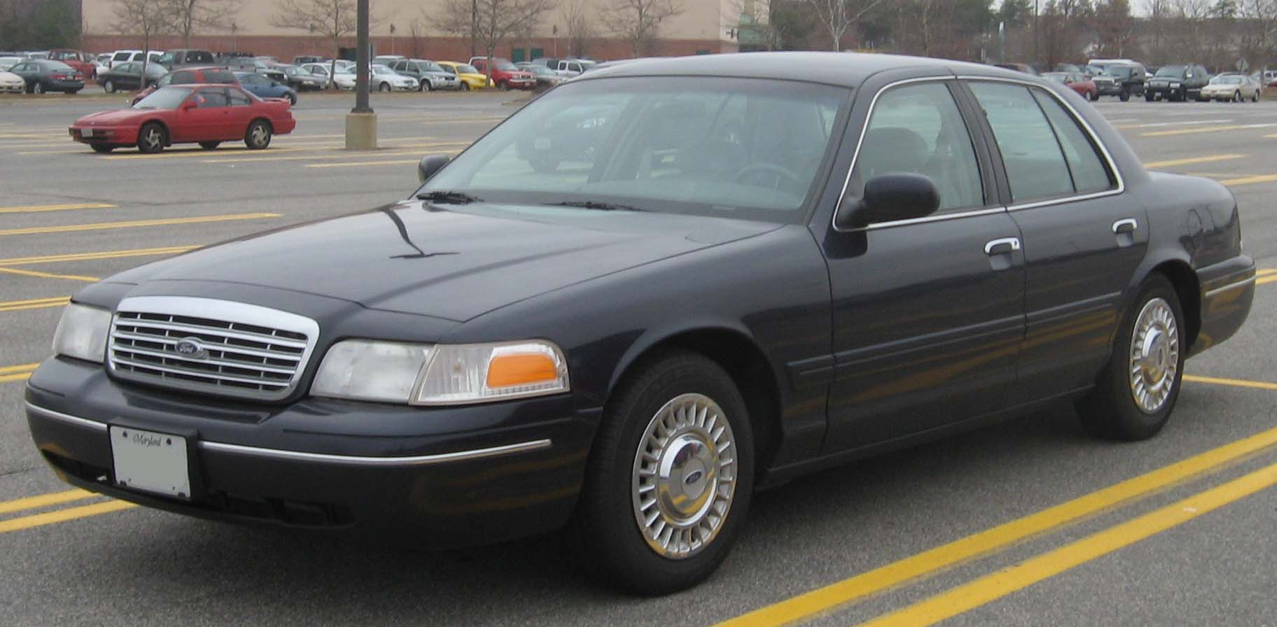 1998-2002 Ford Crown Victoria photographed in Waldorf, Maryland, USA.